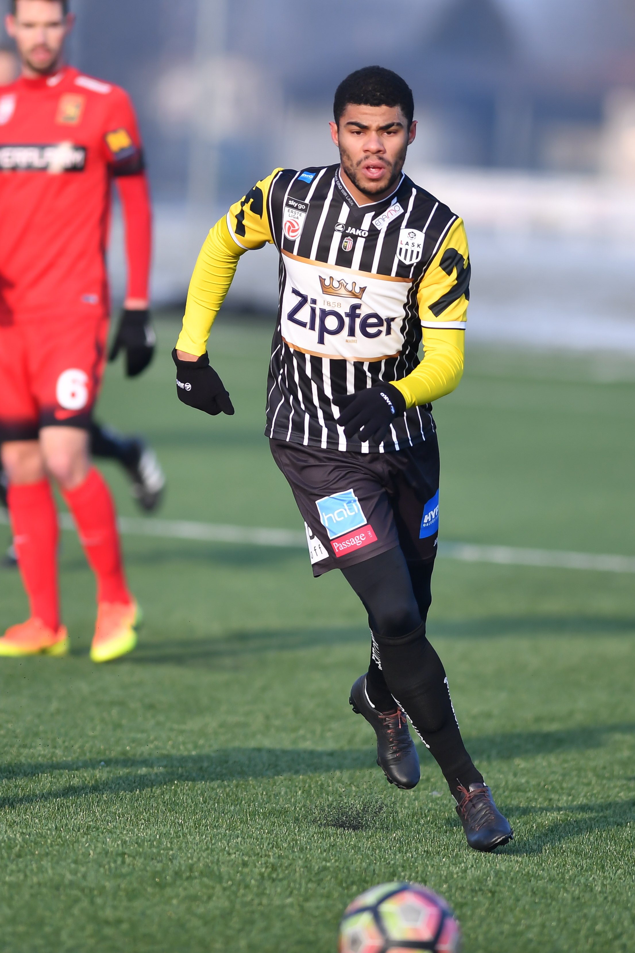 20/1/2017 Preparation match - FC Admira Wacker Moedling vs LASK Linz.